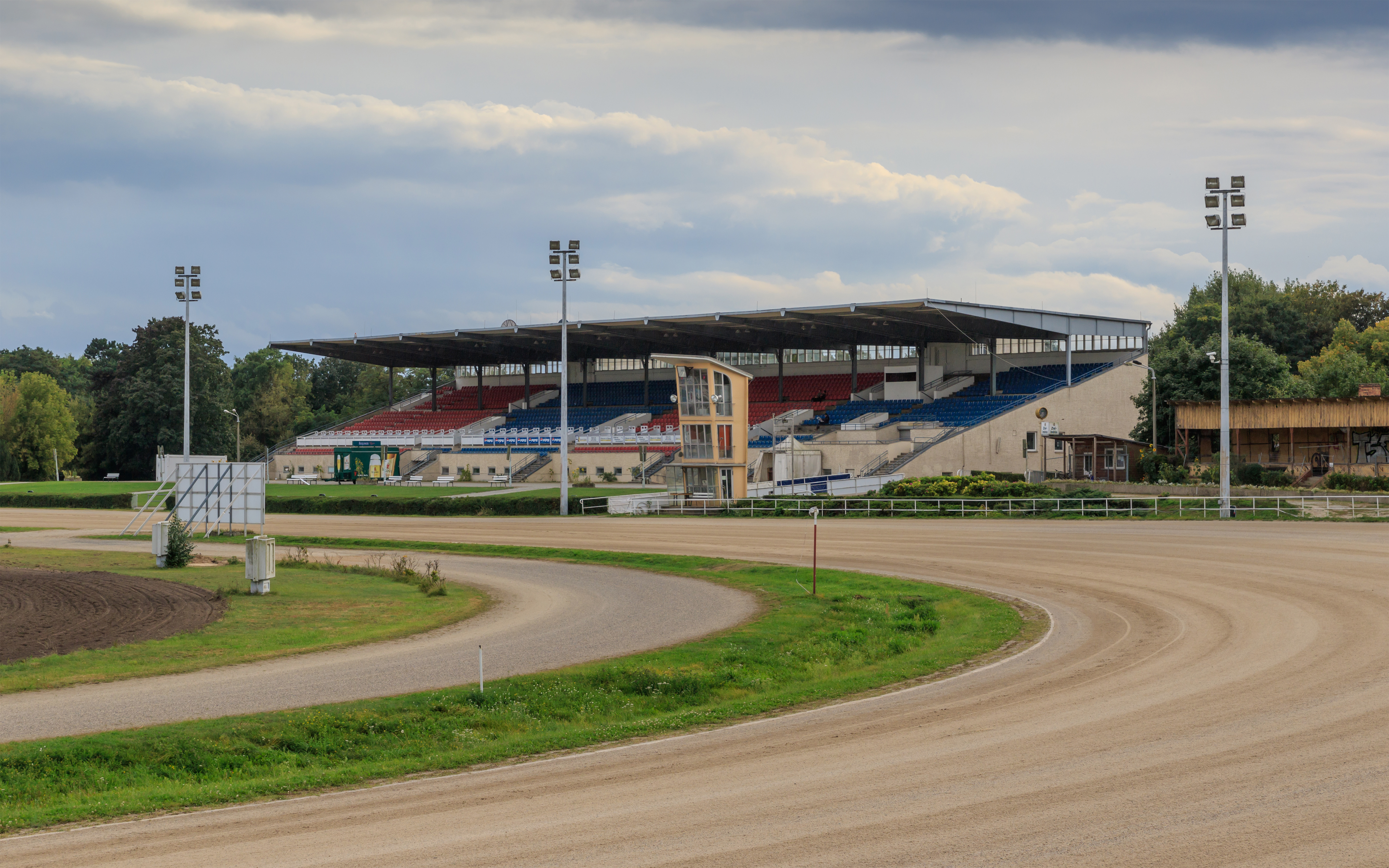 Karlshorst Racecourse in Berlin (Germany)